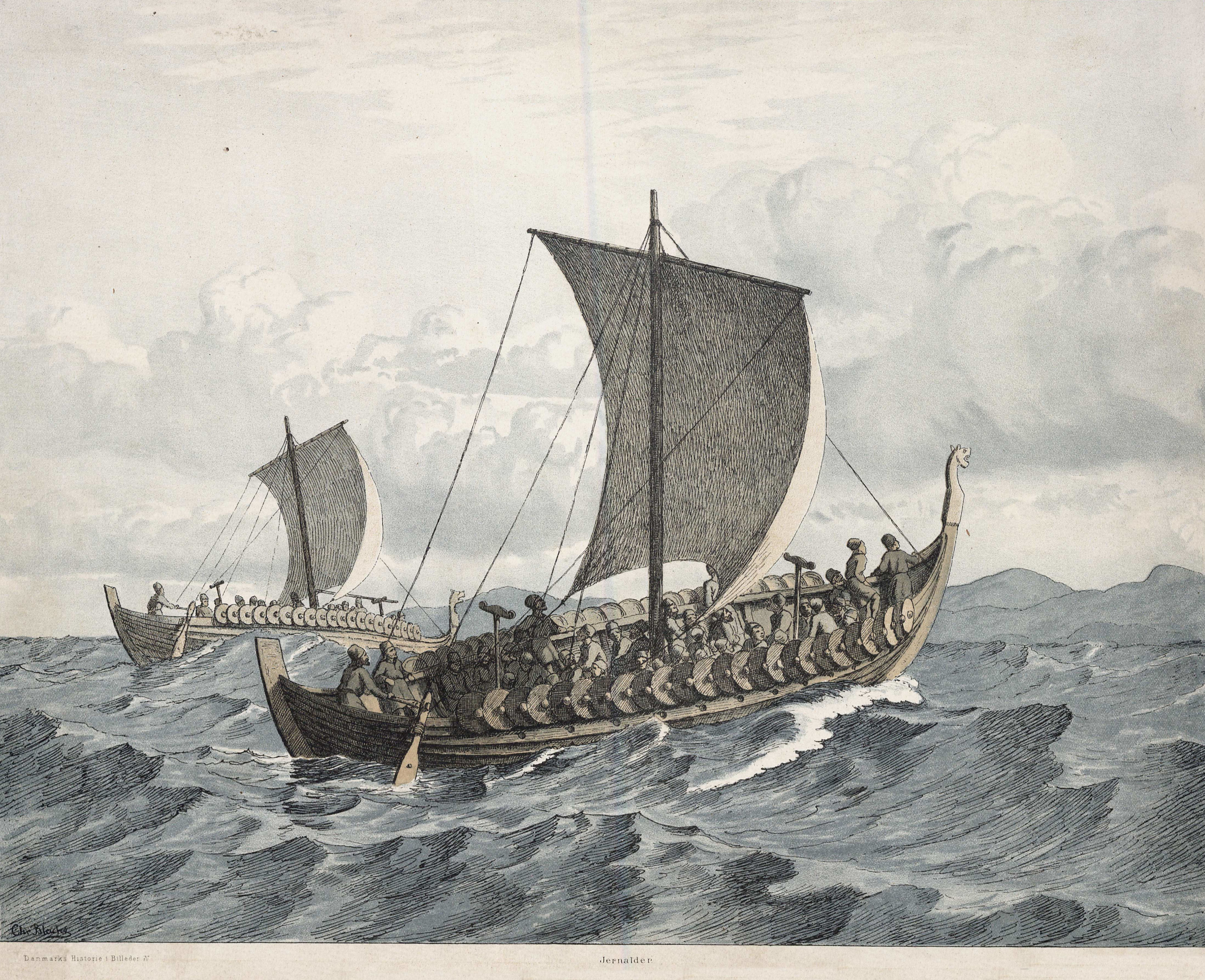 (Christian Blache, 1838 - 1920)